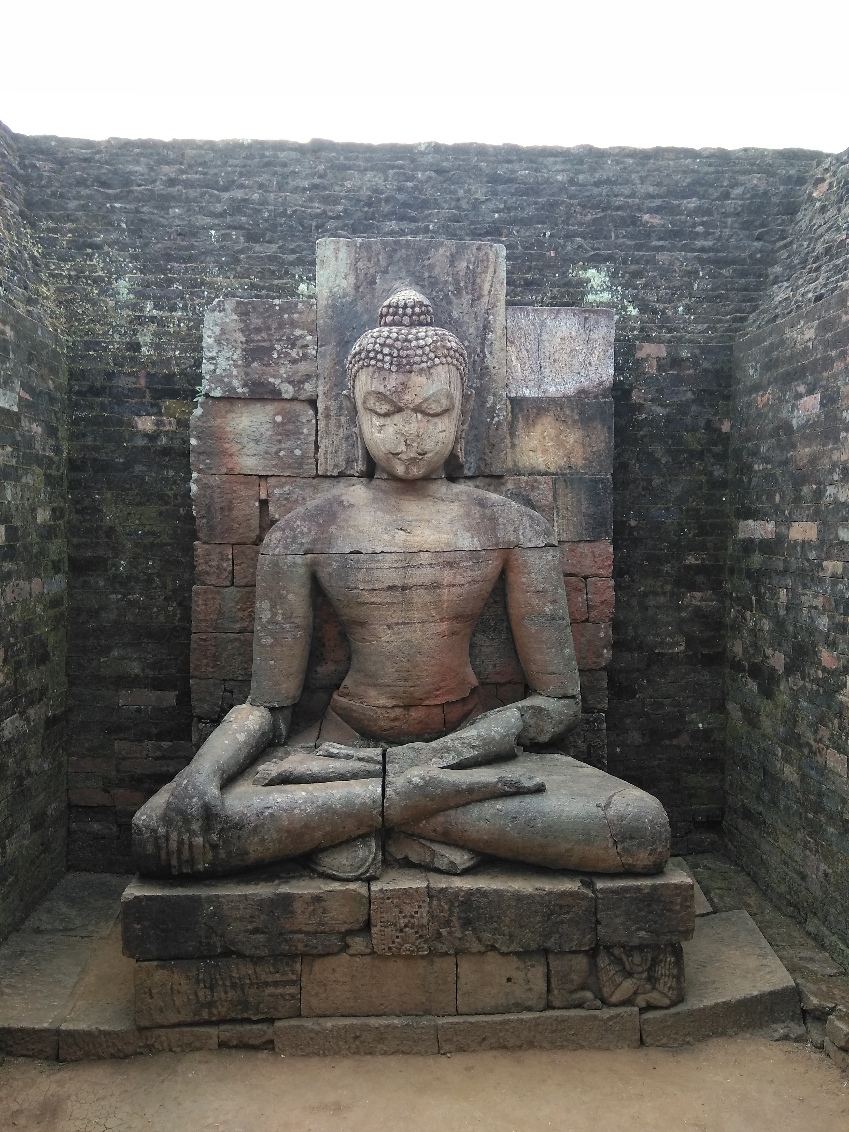 Buddhist site (excavated)